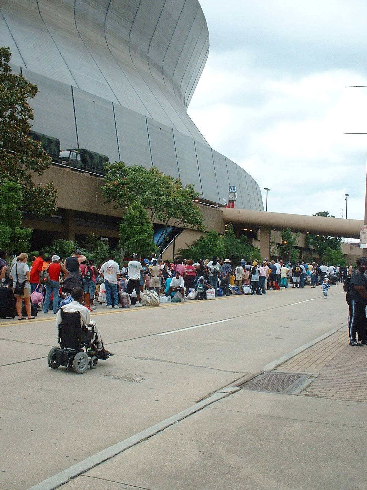 New Orleans, LA. August 28, 2005 -- Residents are bringing their belongings and lining up to get into the Superdome which has been opened as a hurricane shelter in advance of hurricane Katrina. Most residents have evacuated the city and those left behind do not have transportation or have special needs. Marty Bahamonde/FEMA